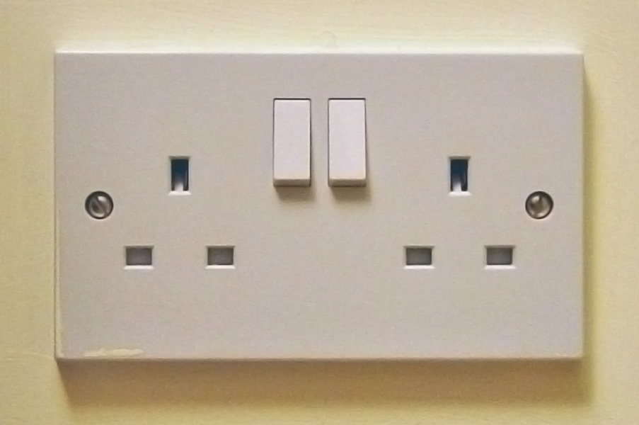 This image is a digital photograph taken by myself on 17/06/06. It is not available anywhere else.